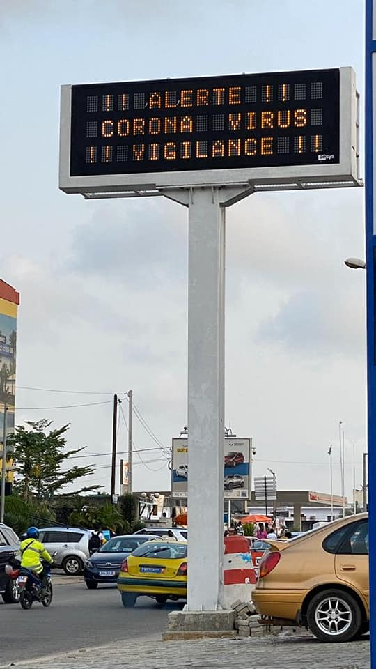 This is an image with the theme "Africa on the Move or Transport" from: Ivory Coast